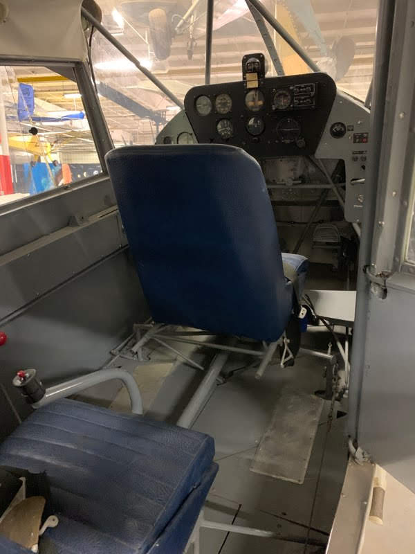 The Rearwin Cloudster 8135T was a tandem-seat version of the normal Cloudster specialized for pilot training. The student pilot sat in the rear seat and could fly the plane with the include controls. A second instrument panel could be installed just for the student but is not present on this aircraft. Shades could also be installed to block out the student pilot's vision so the instructor pilot could still see while simultaneously testing the student's ability to navigate with just their instruments.